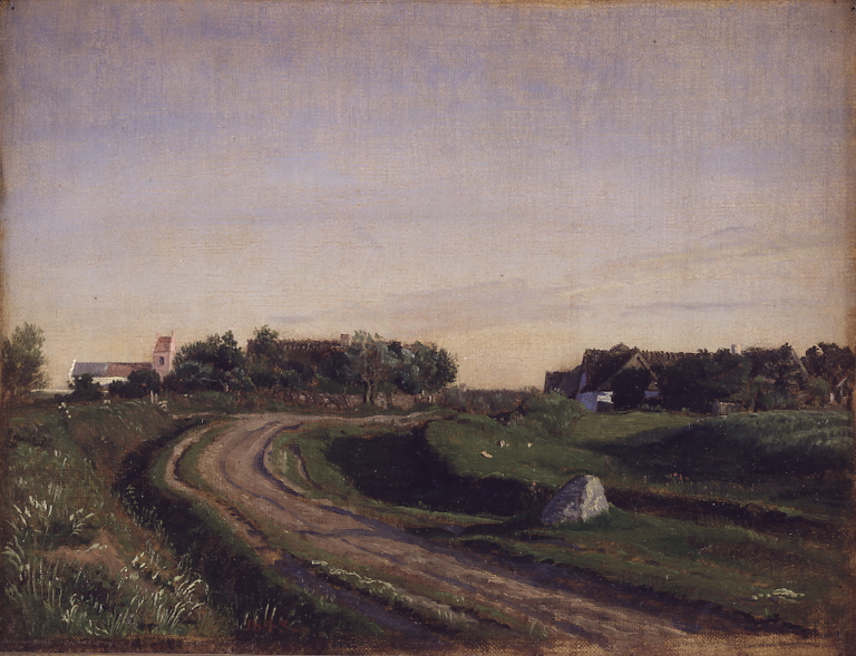 Painting from Vejby in Nordsjælland